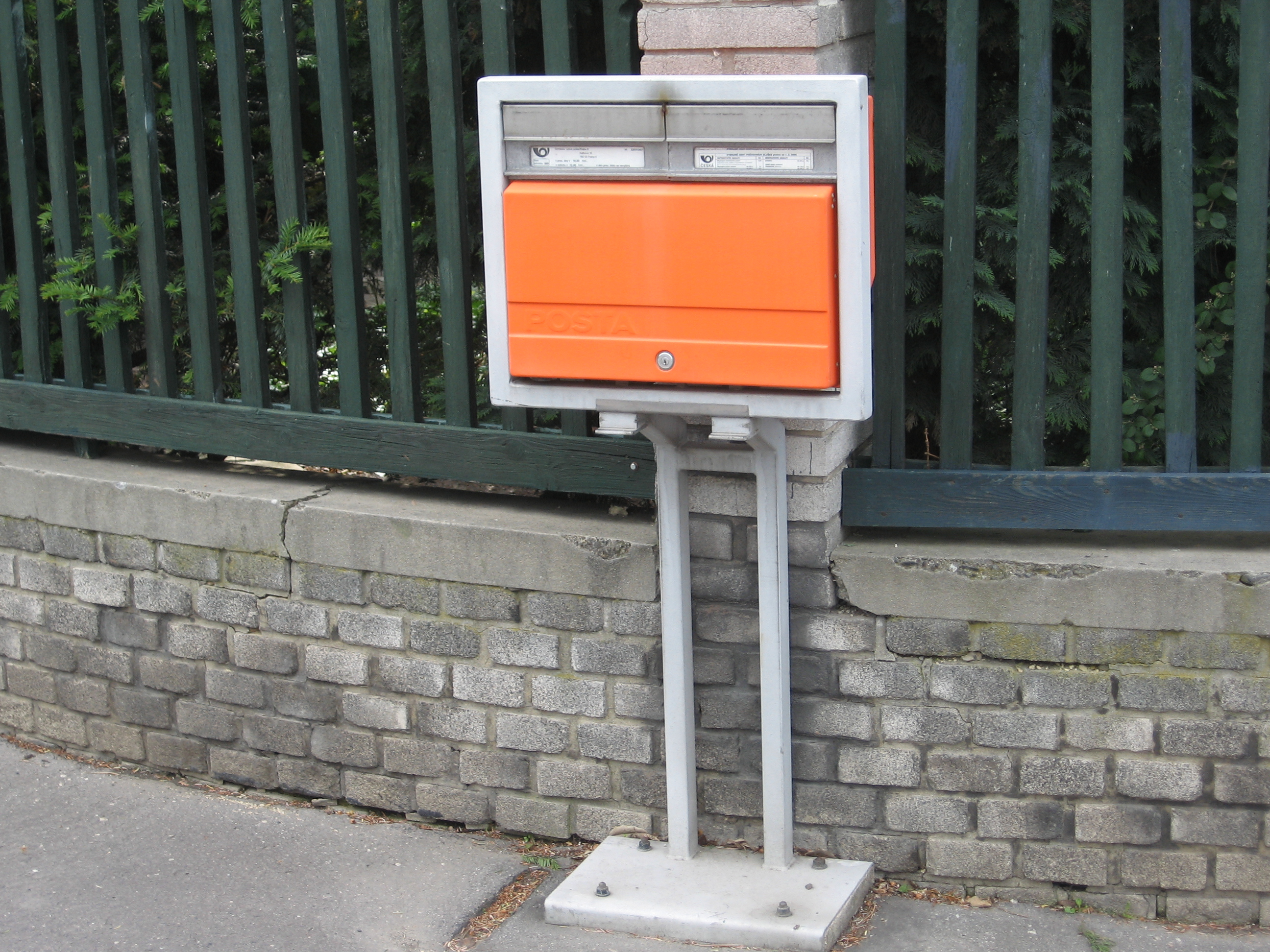 Mailbox in the Czech Republic